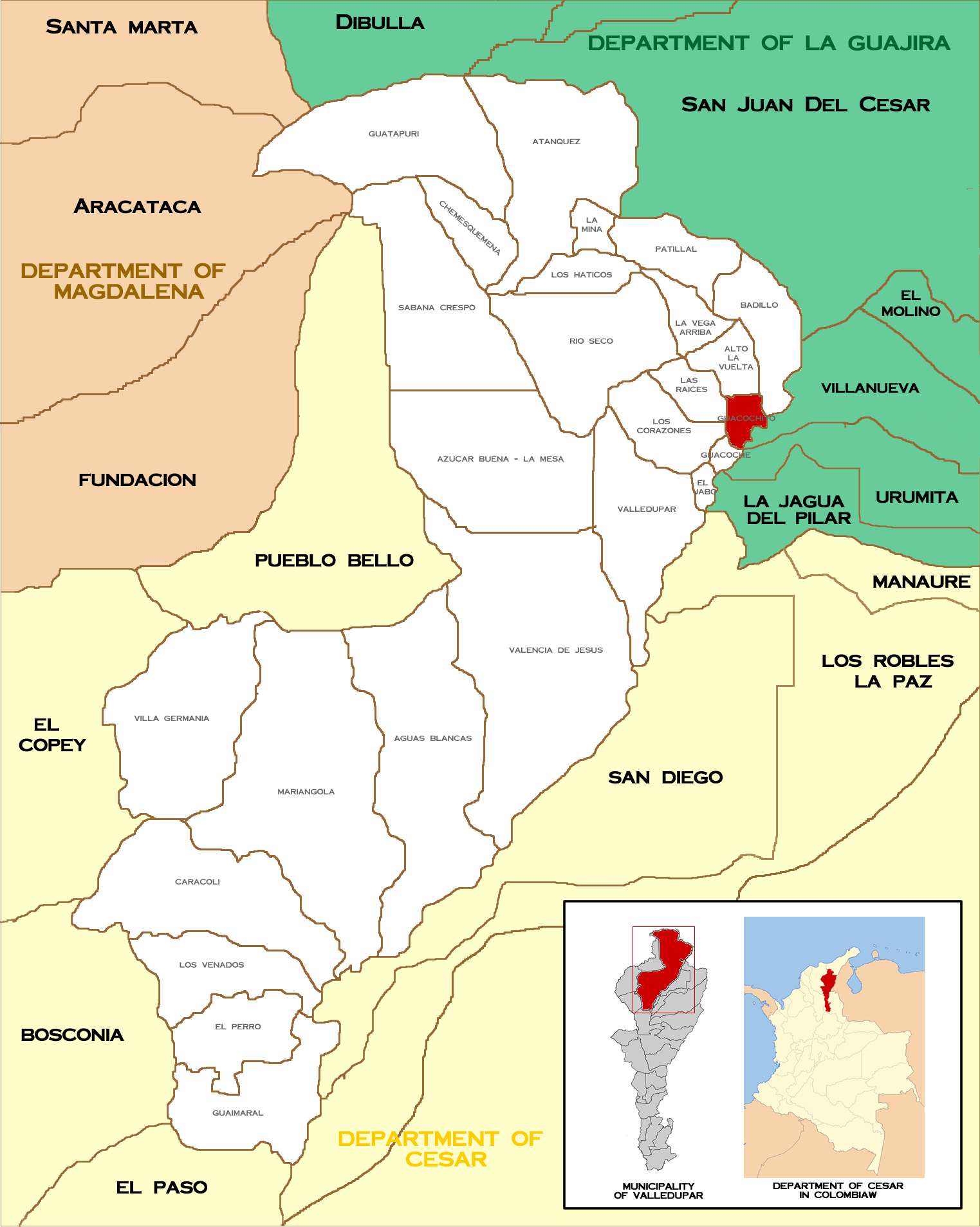 Map of Corregimientos of Valledupar, Guacochito